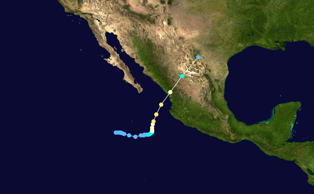 Hurricane Rosa (1994) track. Uses the color scheme from the Saffir-Simpson Hurricane Scale.